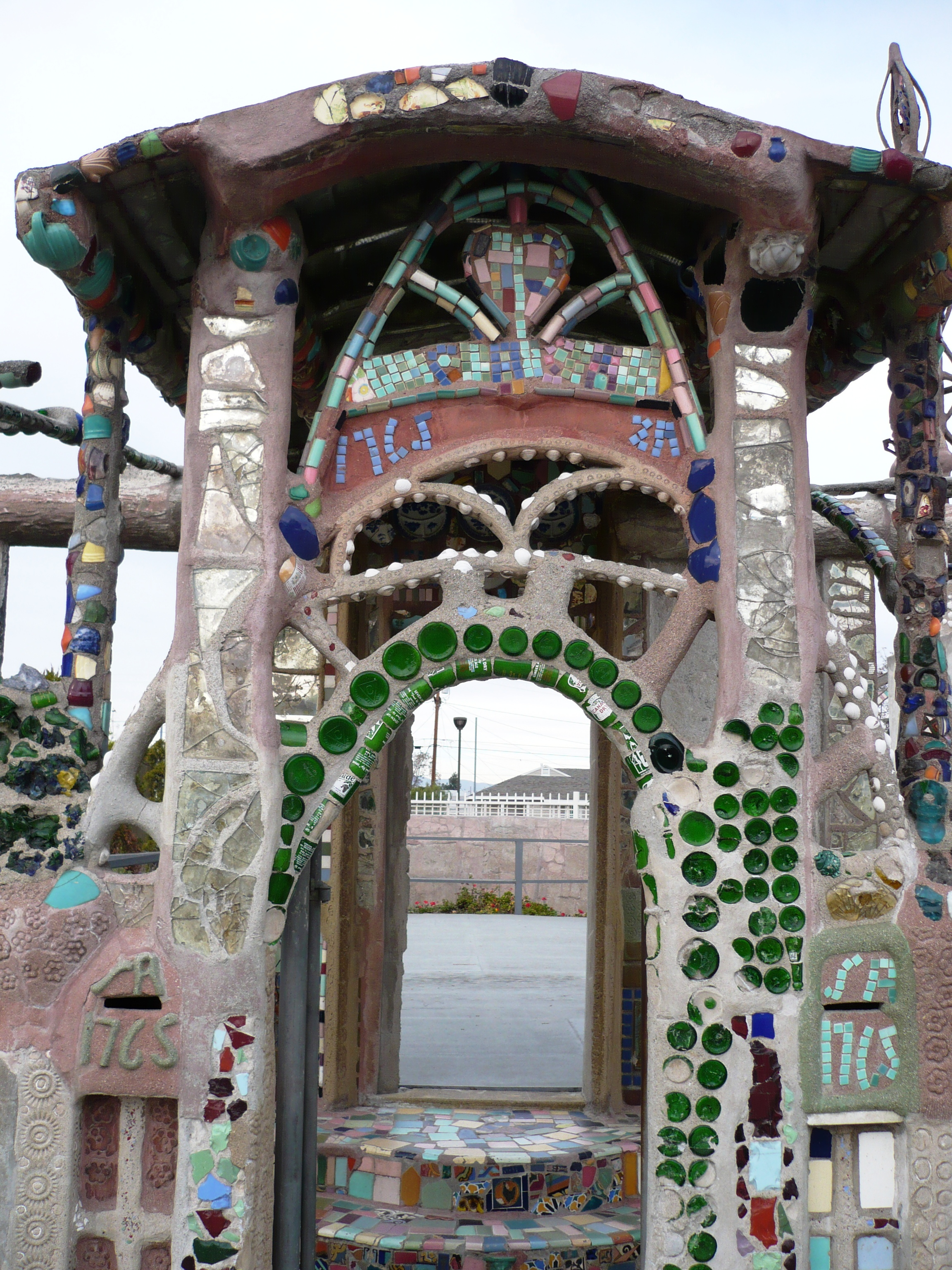 Watts Towers